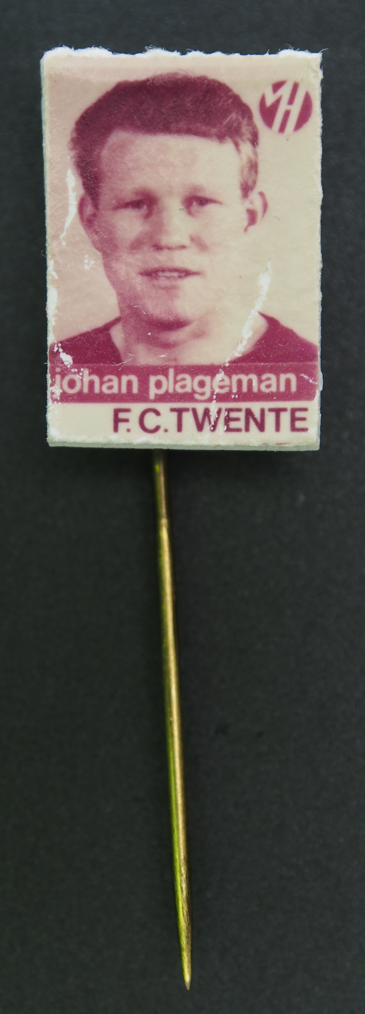 Advertising pin of an old (Dutch) product or brand.